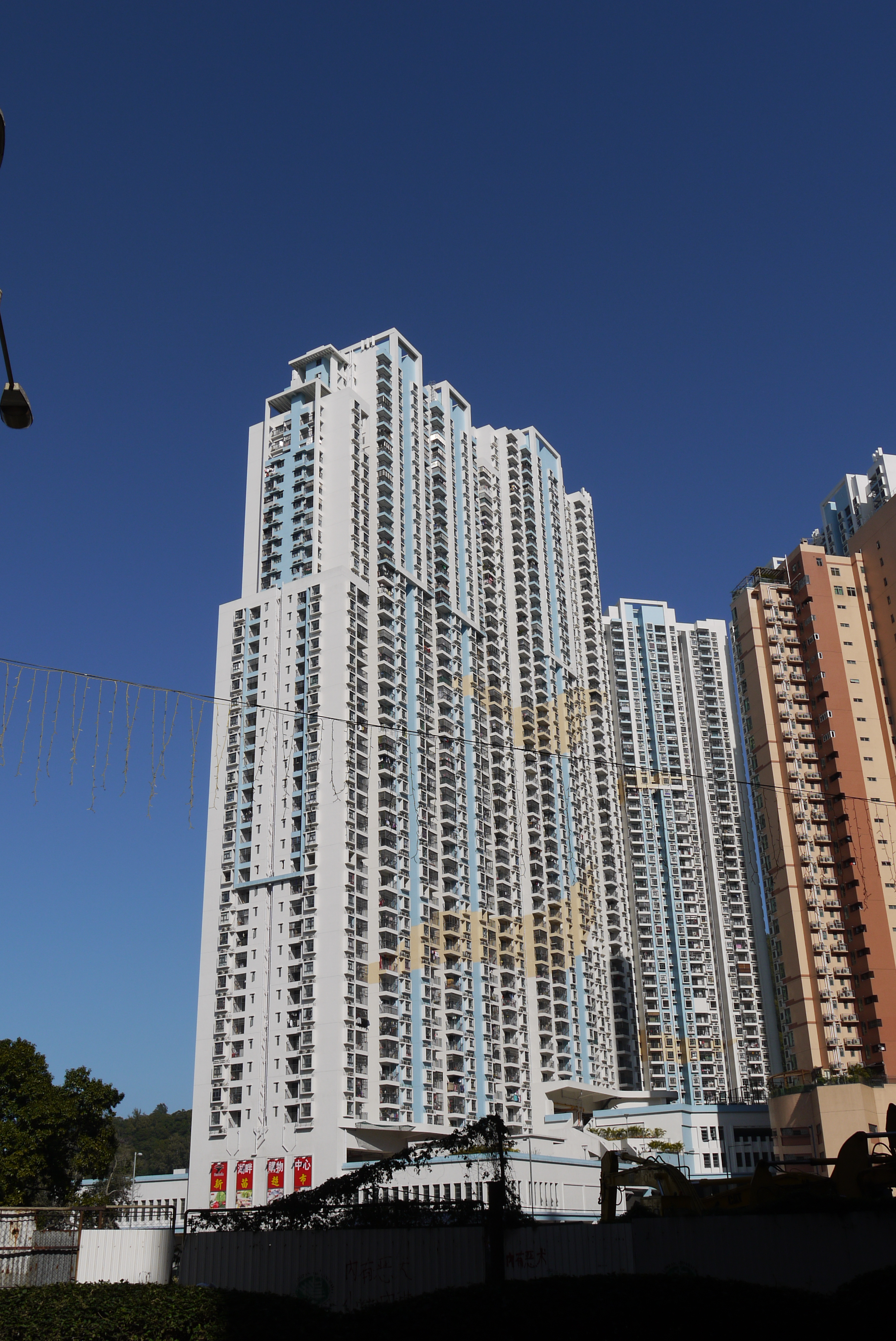 Edificio do Lago